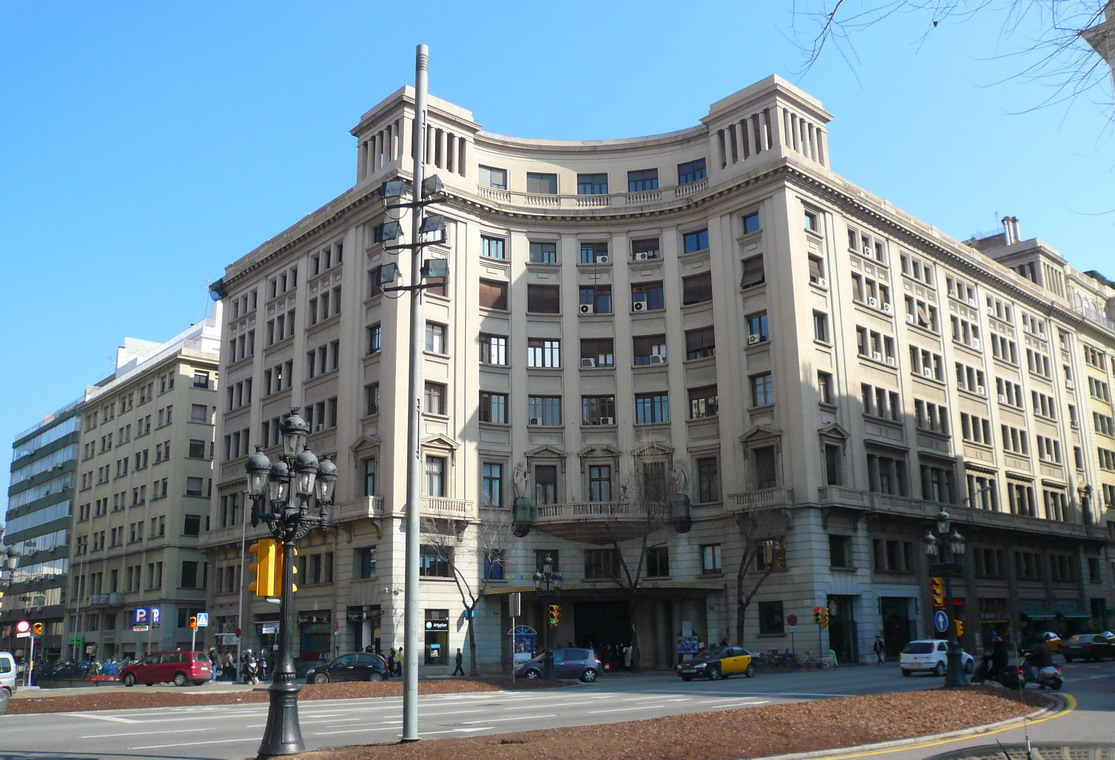 Foment del Treball Nacional.